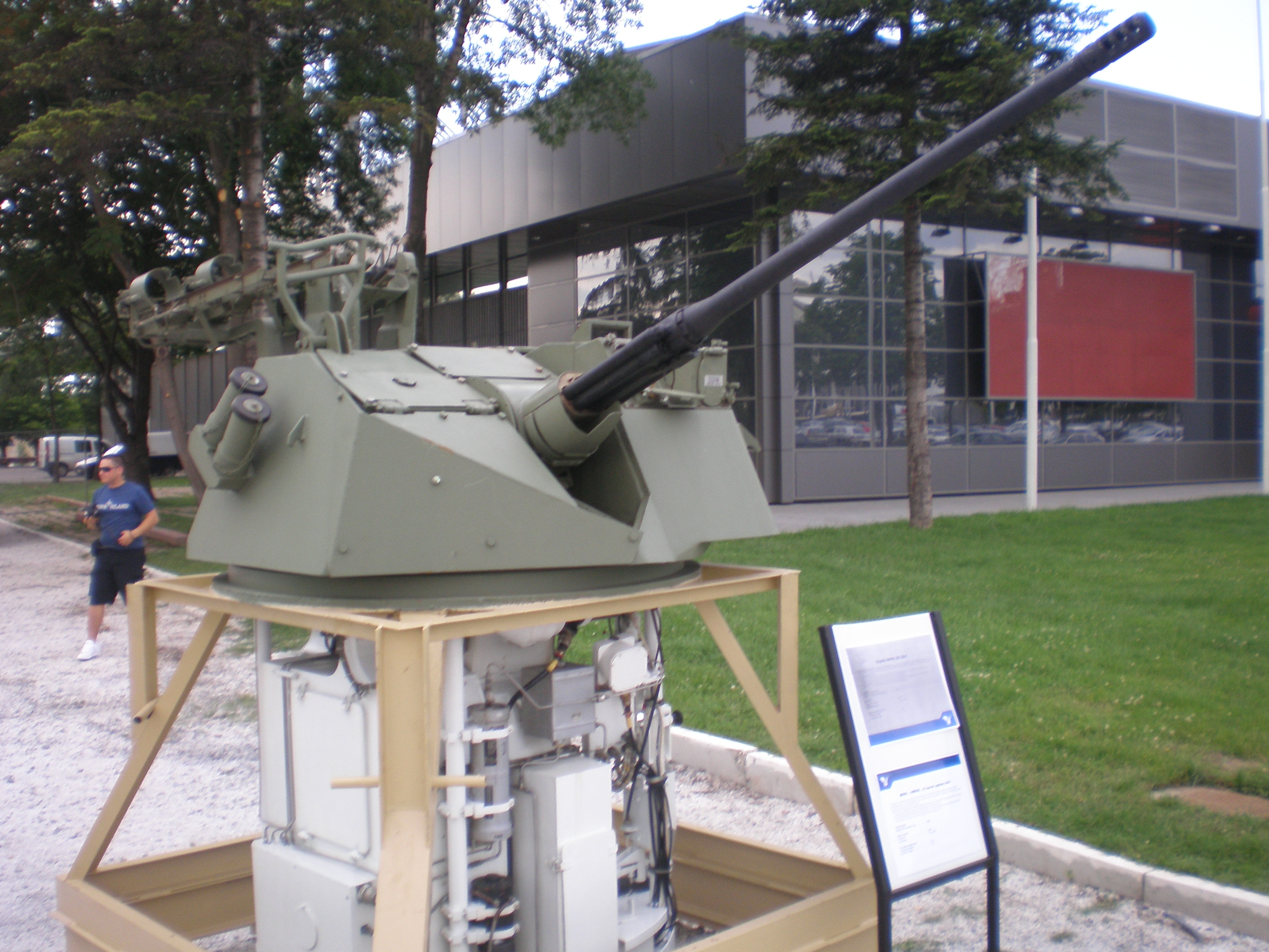 M-91E turret on display at "Partner 2009" military fair.